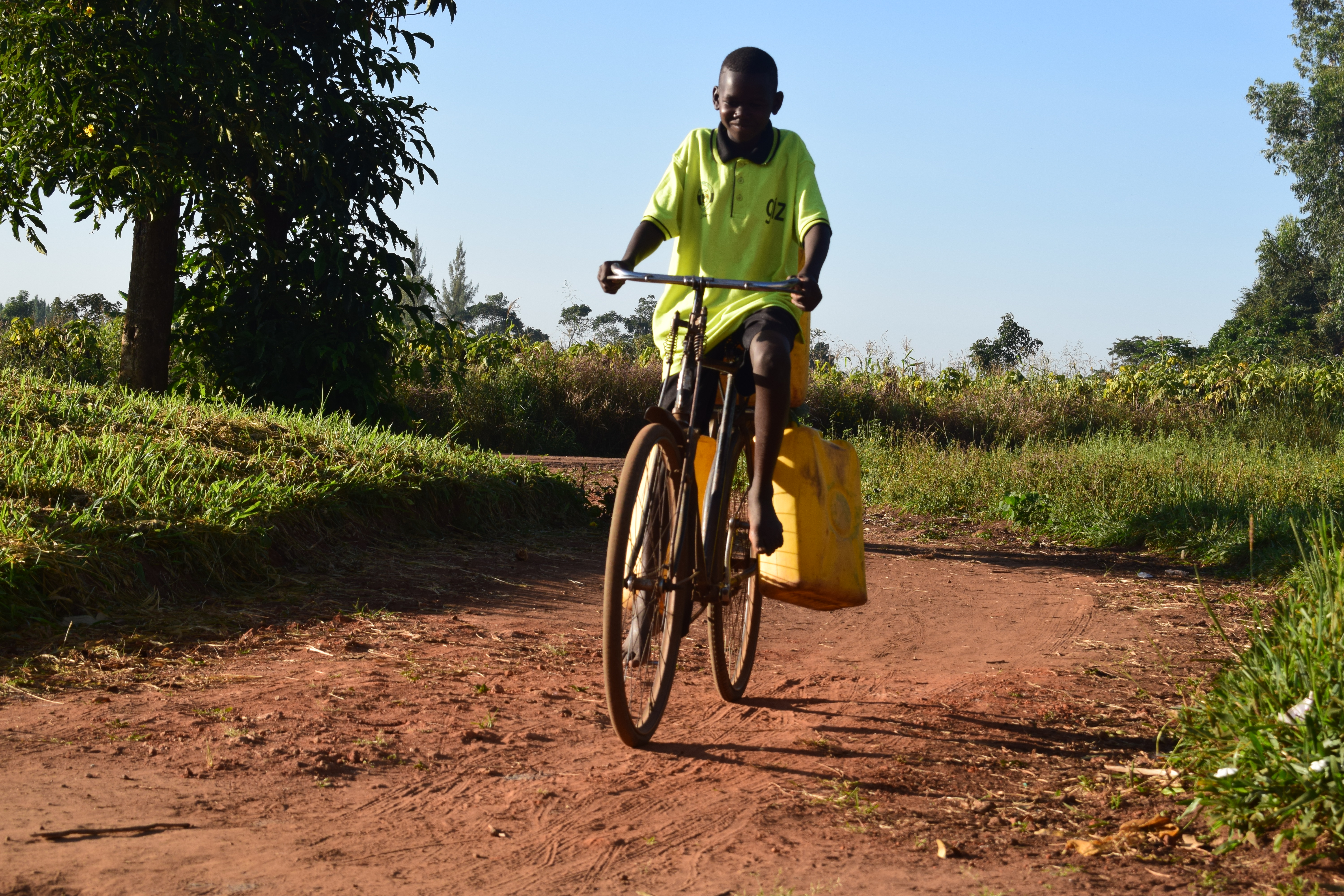 A young boy riding a bicycle in Oyam district This is an image with the theme "Africa on the Move or Transport" from: Uganda